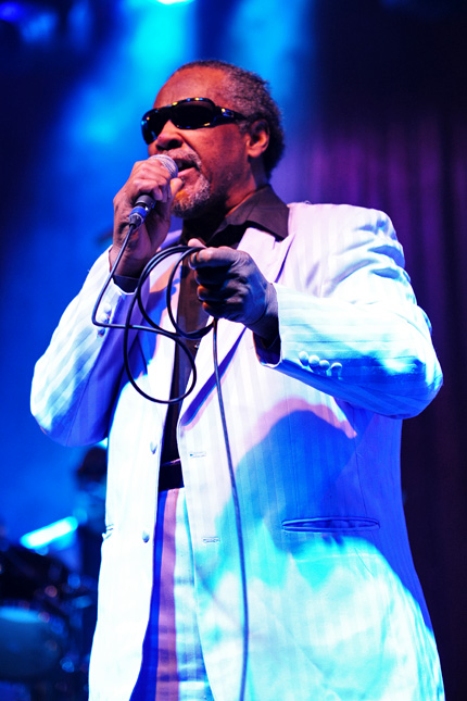 West Coast Blues N Roots Festival 2011